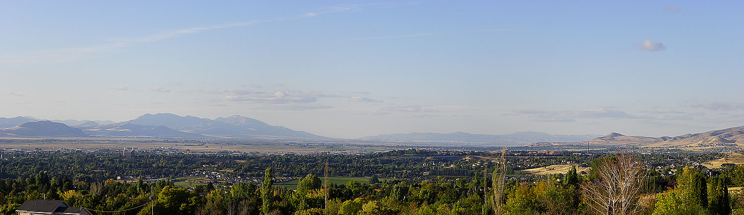 A panorama look over Logan, Utah and Cache Valley, taken from the eastern benches.